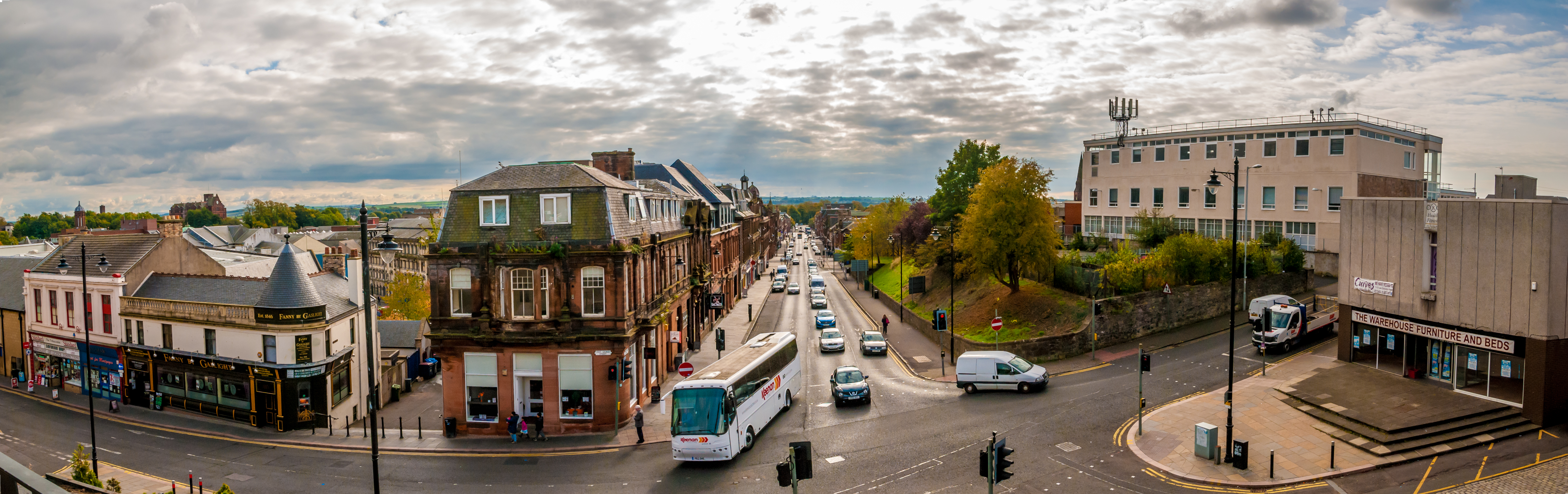 Panorama from the car park of Kilmarnock Train Station looking south toward John Finnie Street.